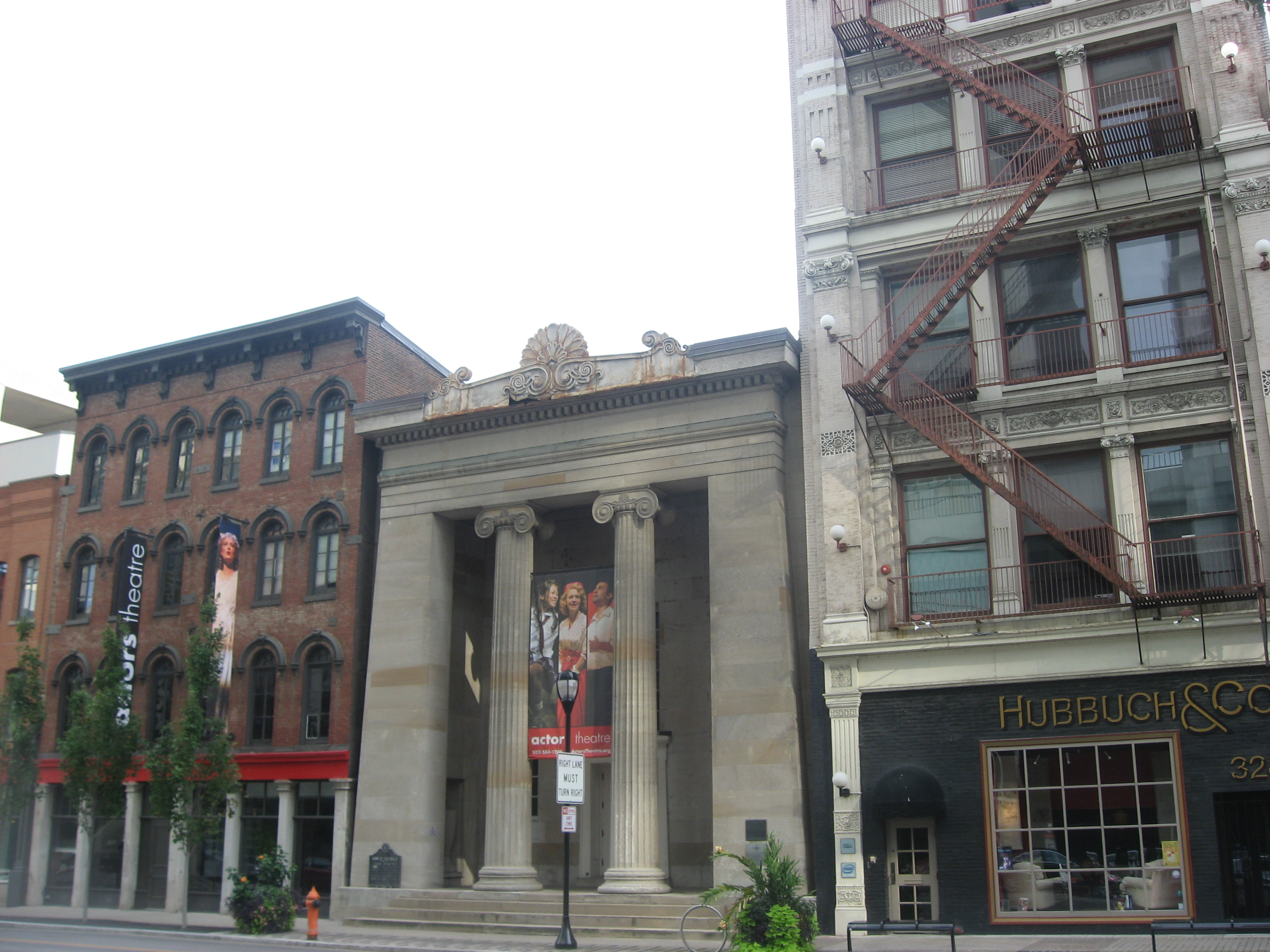 Buildings on the southern side of the 300 block of W. Main Street (U.S. Route 31) in Louisville, Kentucky, United States. In the center is the Old Bank of Louisville, a National Historic Landmark built in 1837. These buildings are part of the Main Street District, Expanded, a historic district that is listed on the National Register of Historic Places.